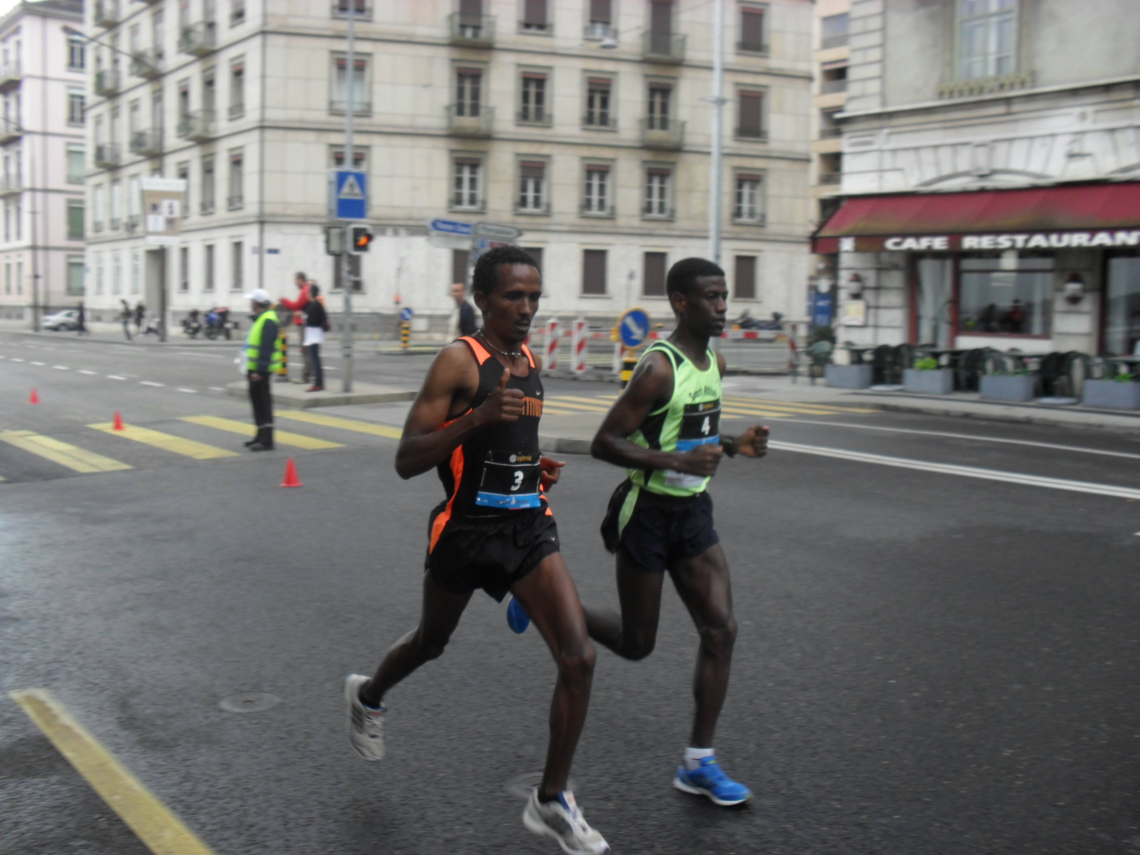 Teshomi Temerate (winner, left) and Germa Tsiga (2nd, right)